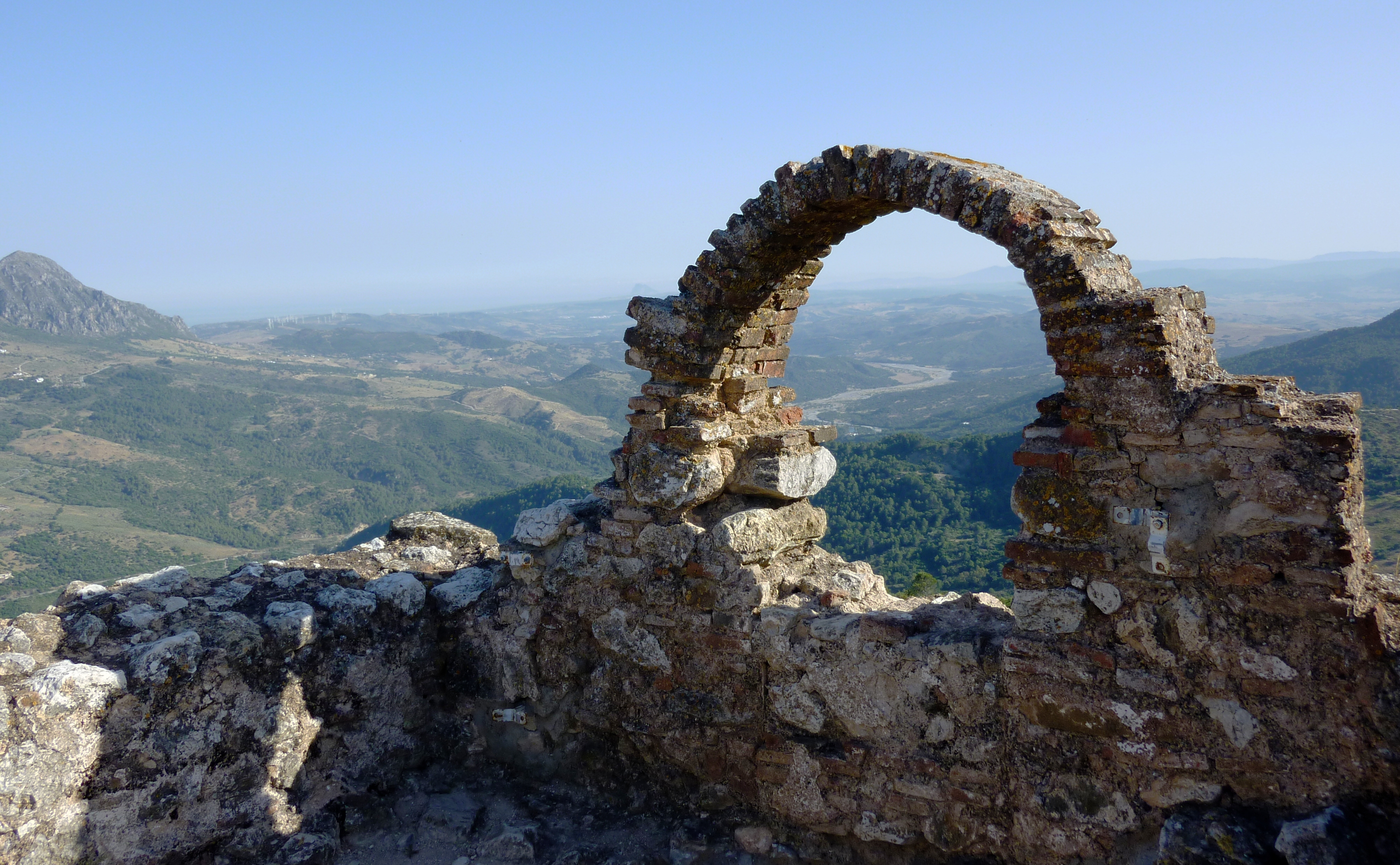 Gaucín, southeast view from the tower of the Castillo del Aquila